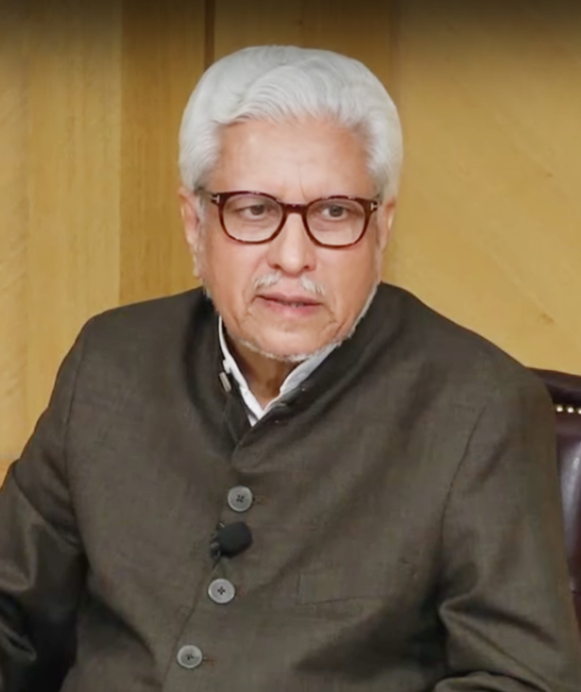 Ghamidi in Georgetown University, 27 May 2015